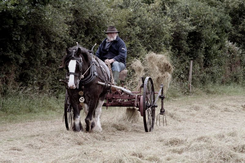 A Devon farmer making hay the old fashioned way with a horse-drawn fork tedder.